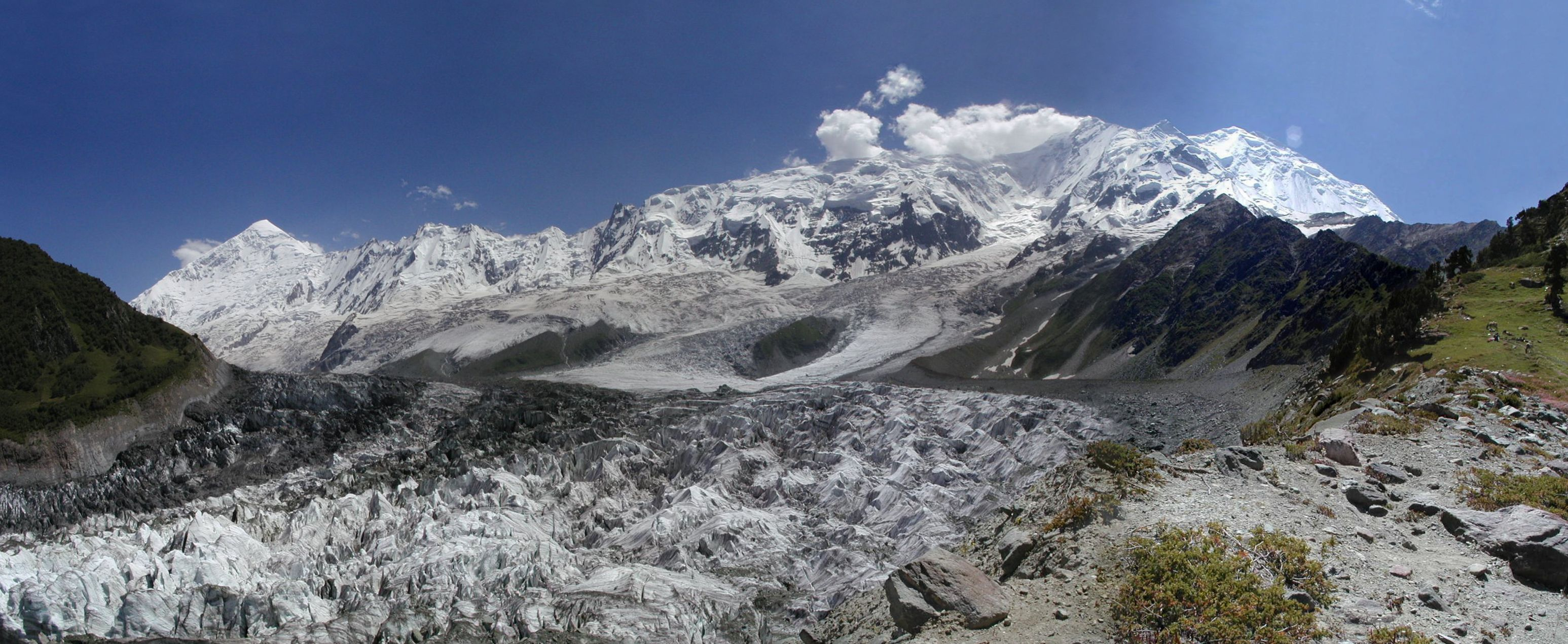 Rakaposhi and Diran, Pakistan. This image can only give a hint of the beauty of the Northern Areas of Pakistan. Minapin glacier towered by Rakaposhi (7,788 metres) on the right and the pyramid-shaped Diran peak (7,257 metres) on the left, as seen from a point before entering Taghafari (Tagafari, Rakaposhi's base camp, as approached from Hunza).